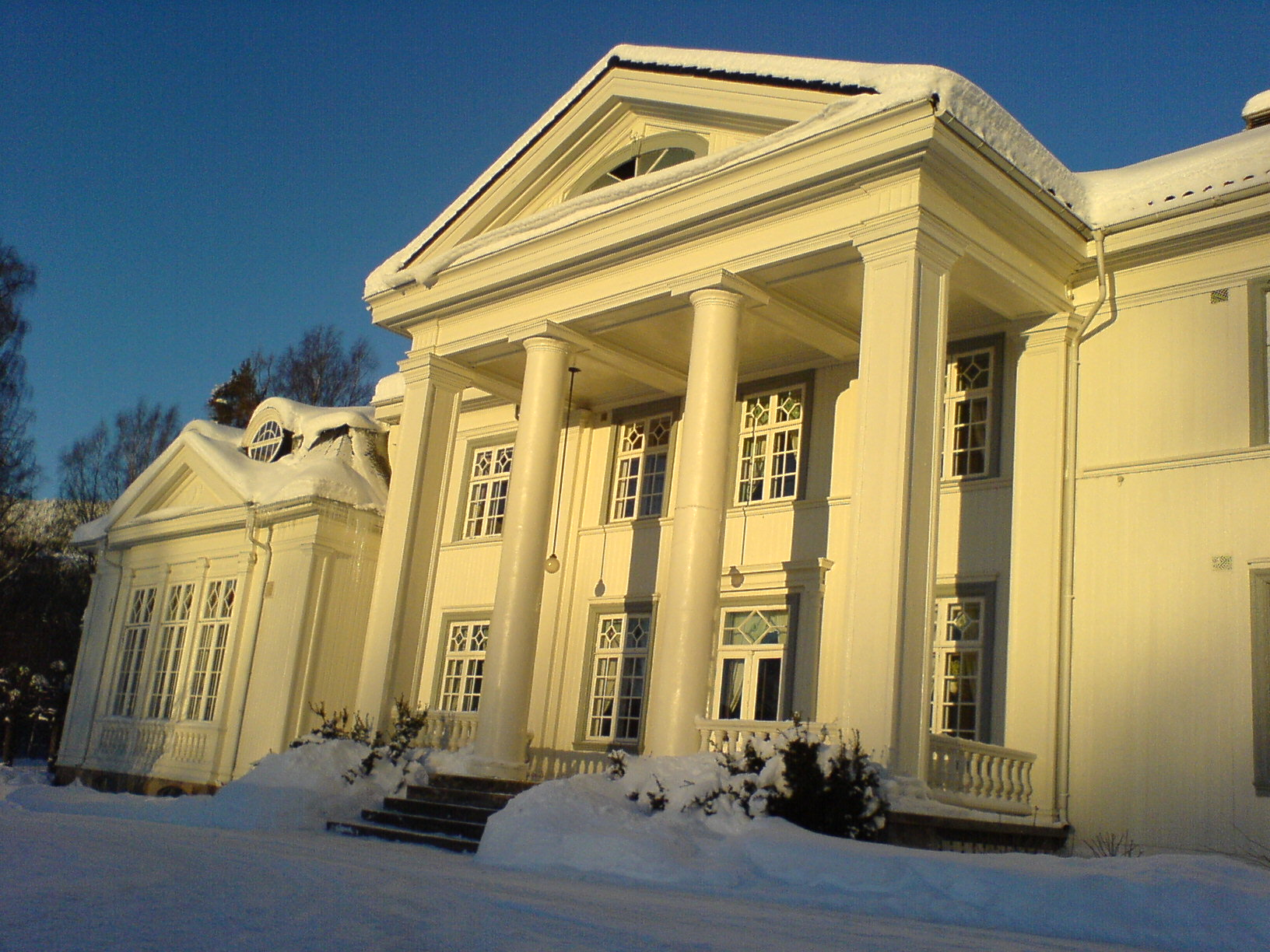 Hurdal Verk folkehøgskole